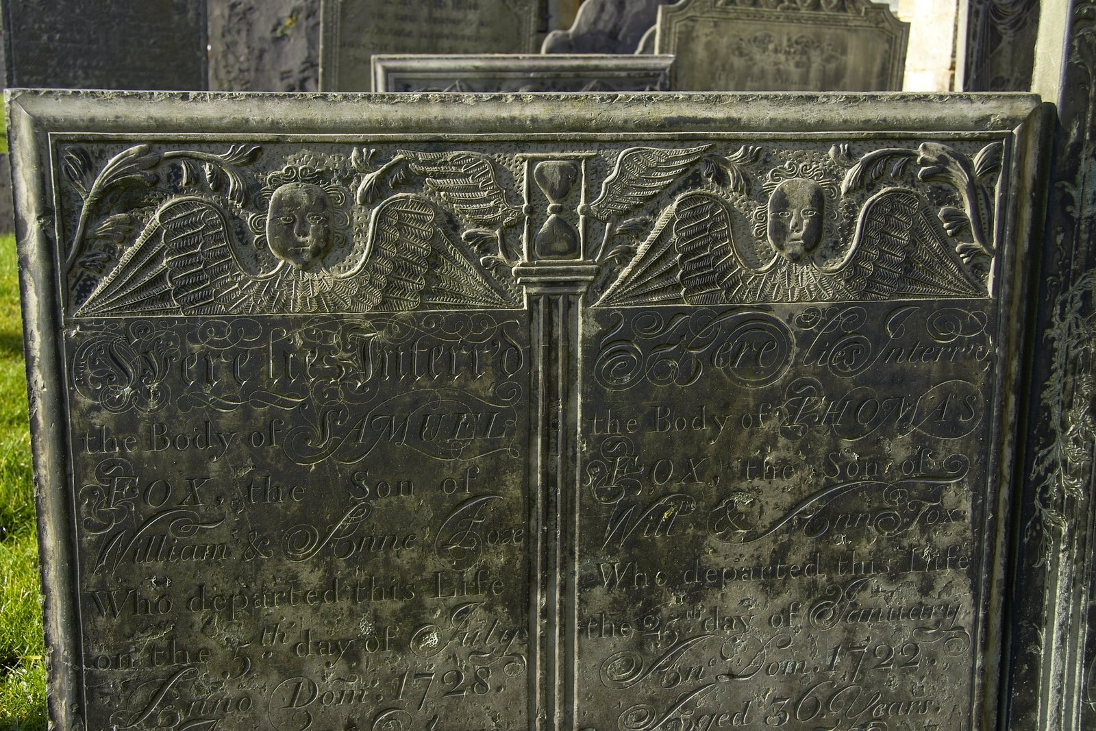 a fine Swithland slate headstone,carved and signed by Wymeswold mason,William Charles,earlier 18th century.Wymeswold was a flourishing centre of Swithland slate carving.